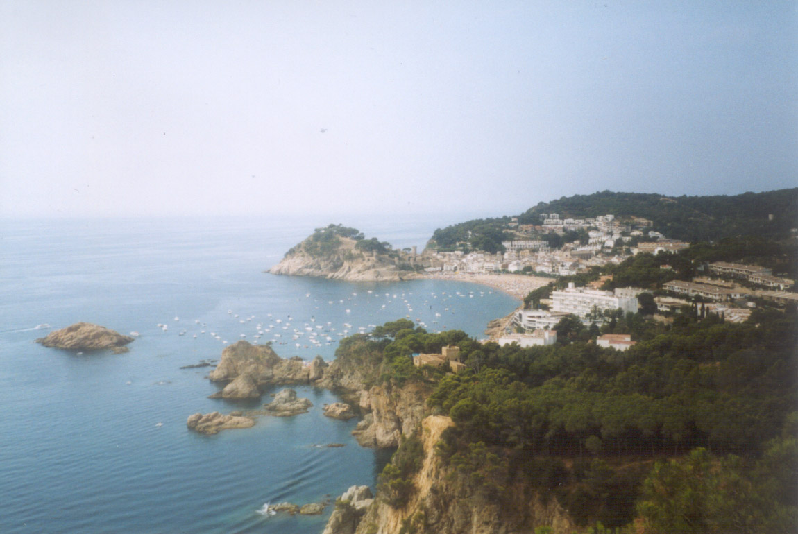 View of Tossa de Mar, Catalonia, Spain